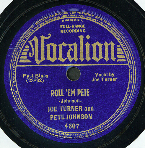 Label shot of "Roll 'Em Pete", Vocalion Records 1938